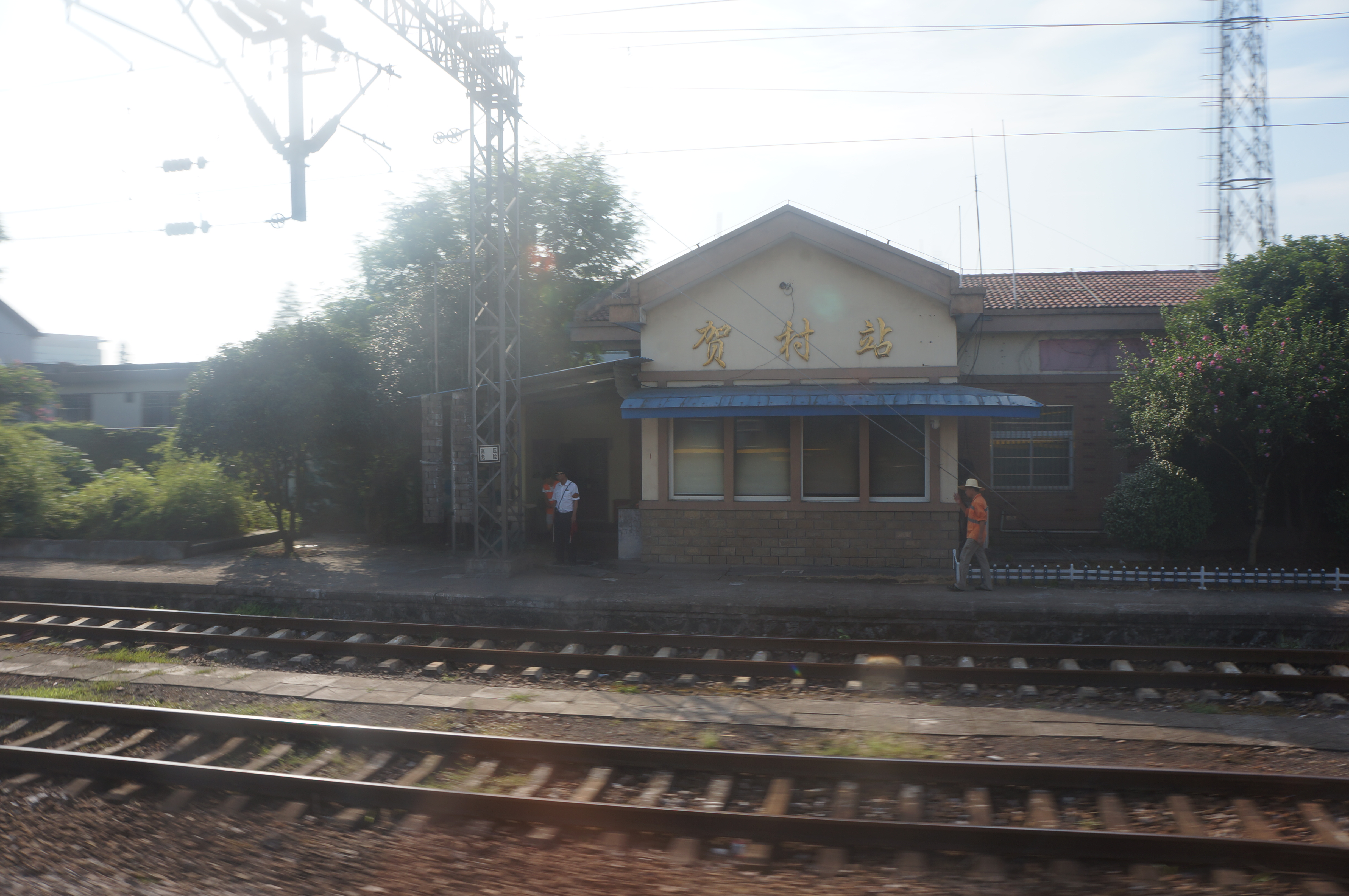 201708 Hecun Station